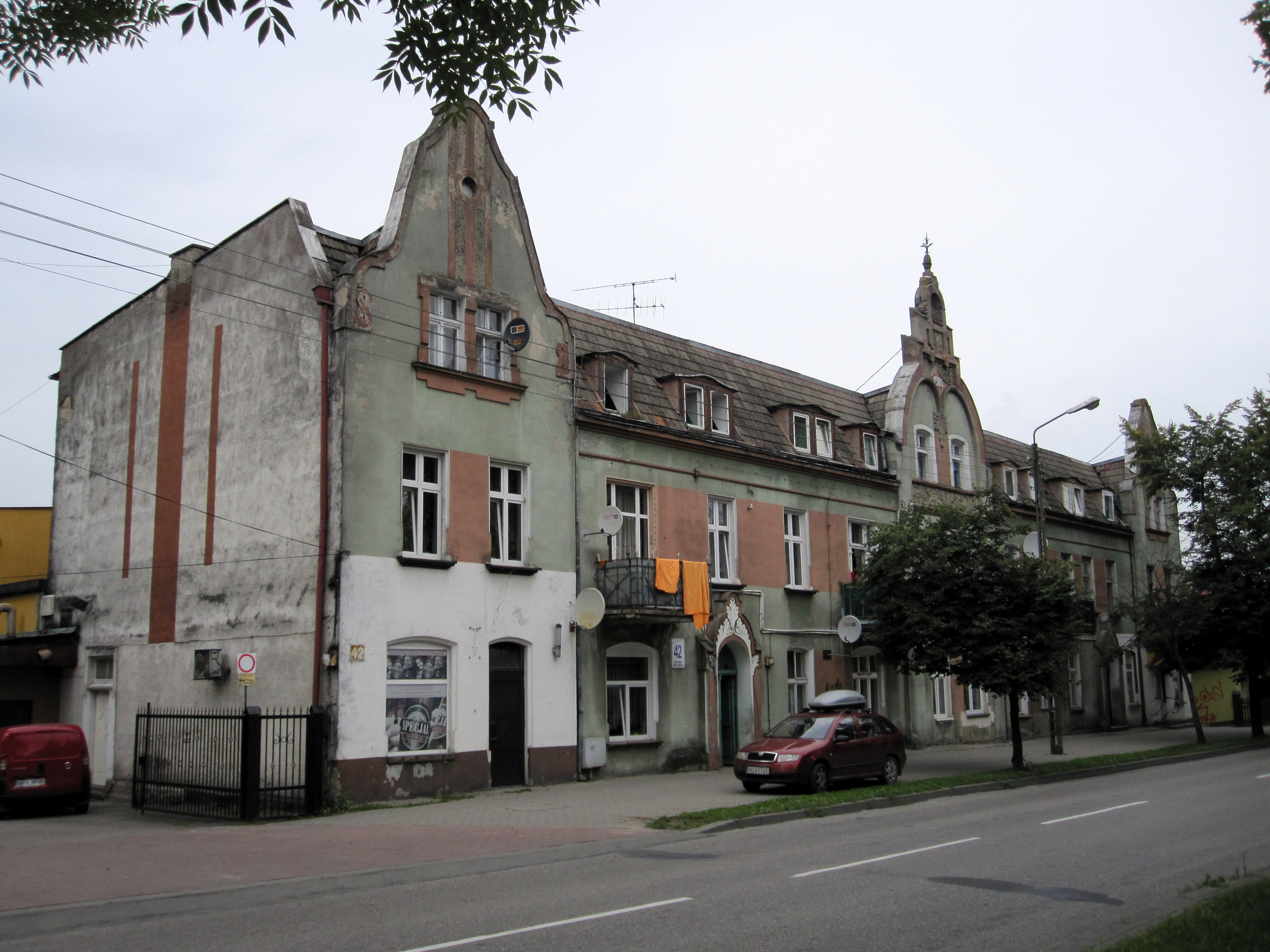 Building on 42 Wojska Polskiego street in Orzysz